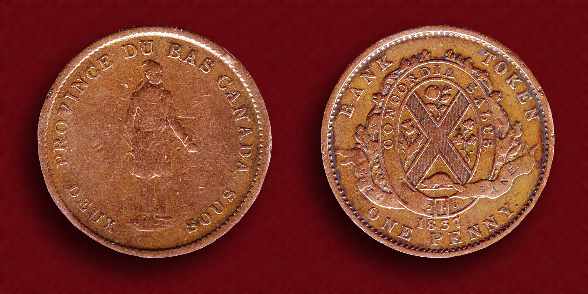 Lower (Bas) Canada City Bank One Penny (Deux Sous) Bank Token 1837 Source: "The Cooper Collections" (uploader's private collection) Photographs and composite digital illustration by uploader